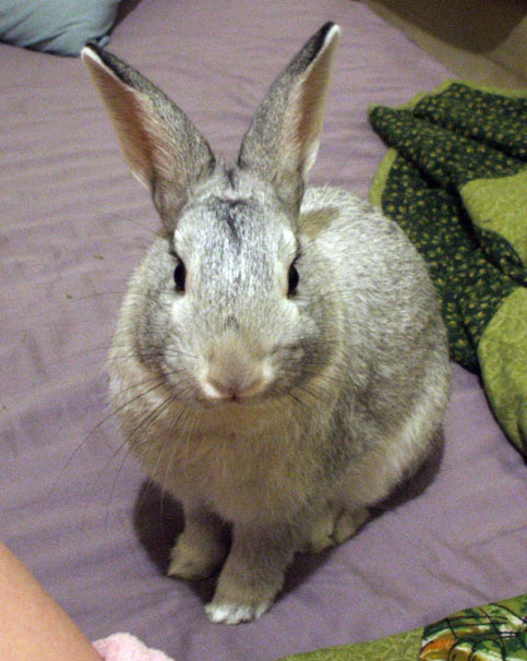 House rabbit, Standard Chinchilla breed